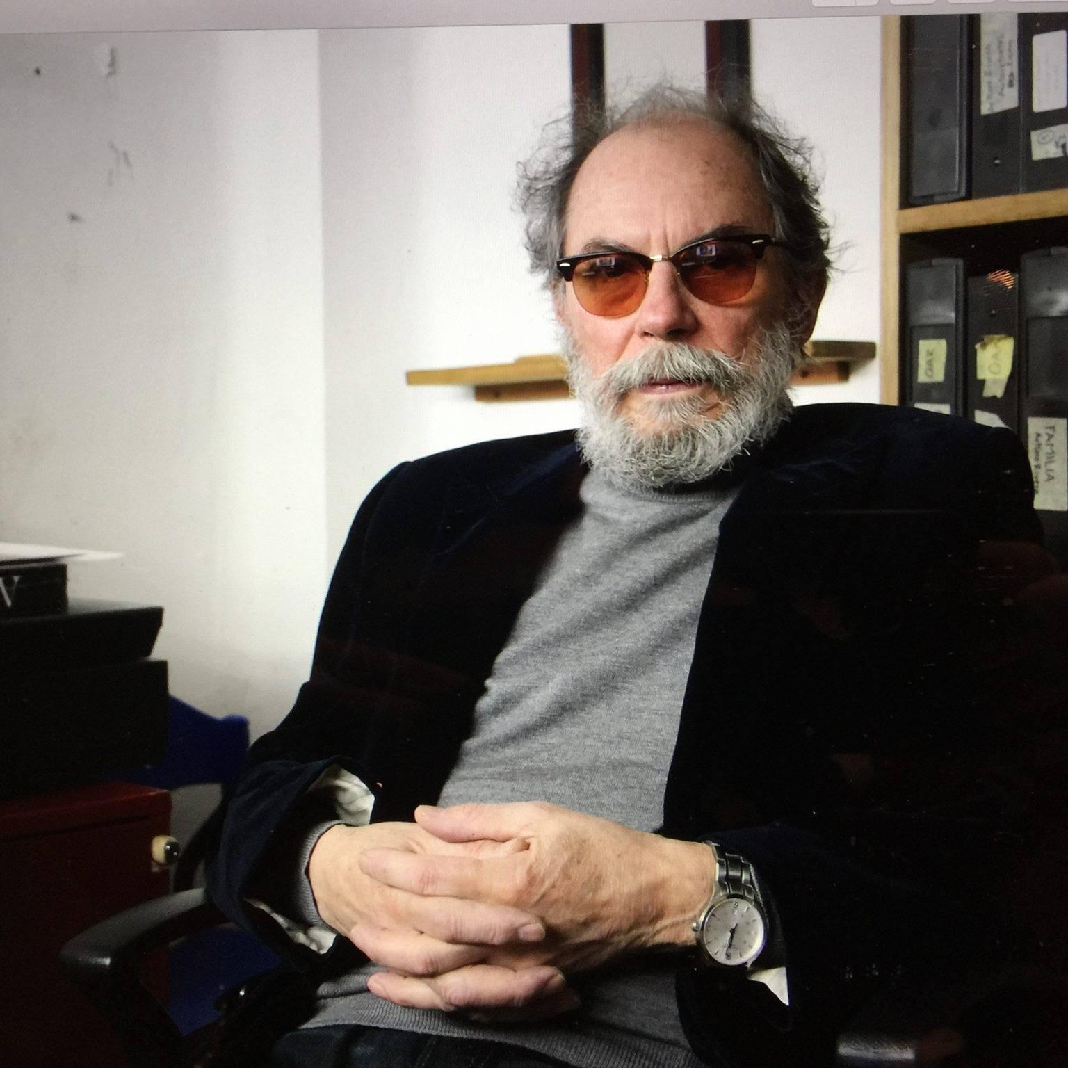 Arturo Rivera Pintor